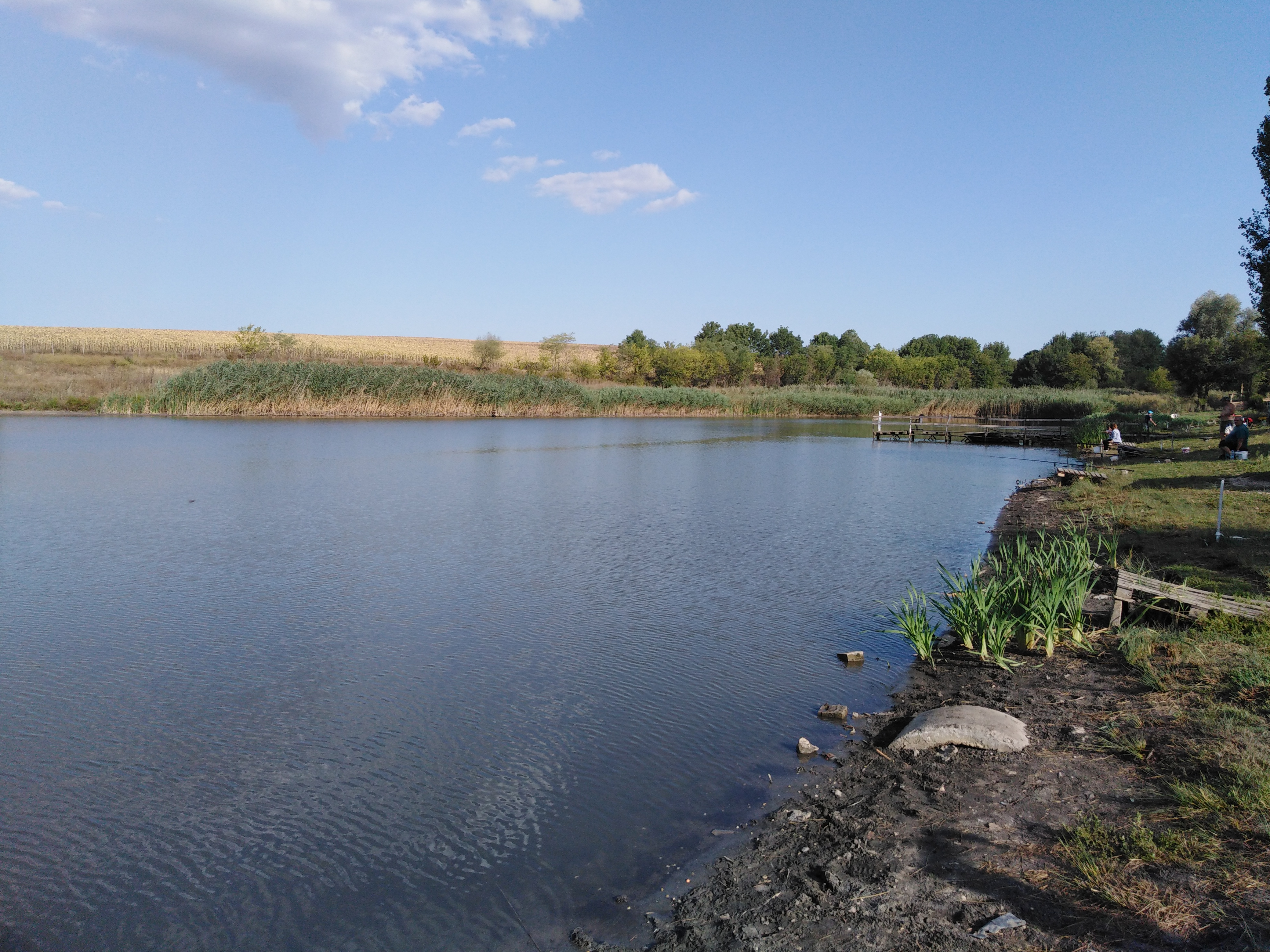 Minkovo lake in Bulgaria